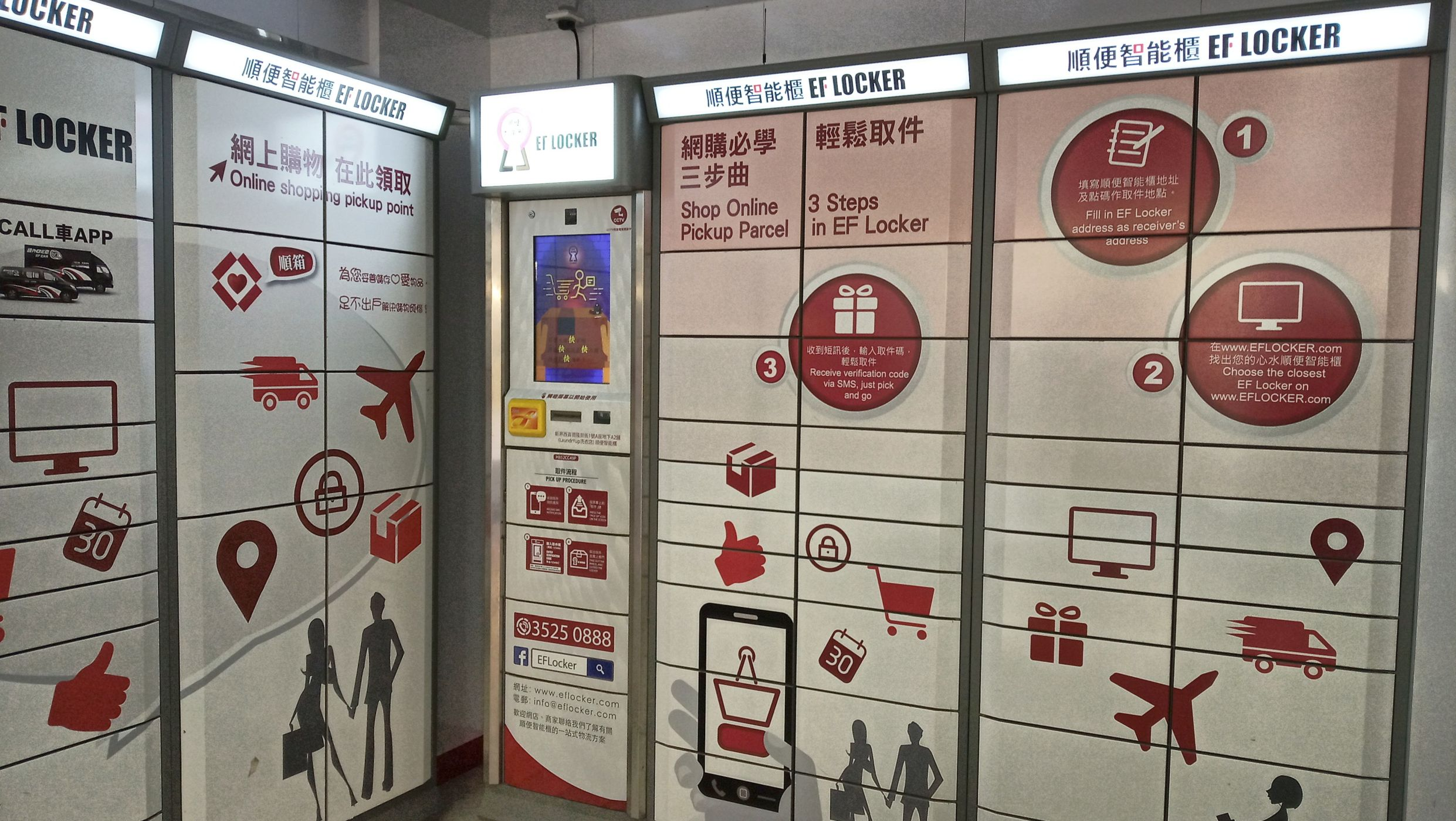 A EF Locker (a self-service parcels pick-up machine) locate in Sai Kung, Hong Kong.